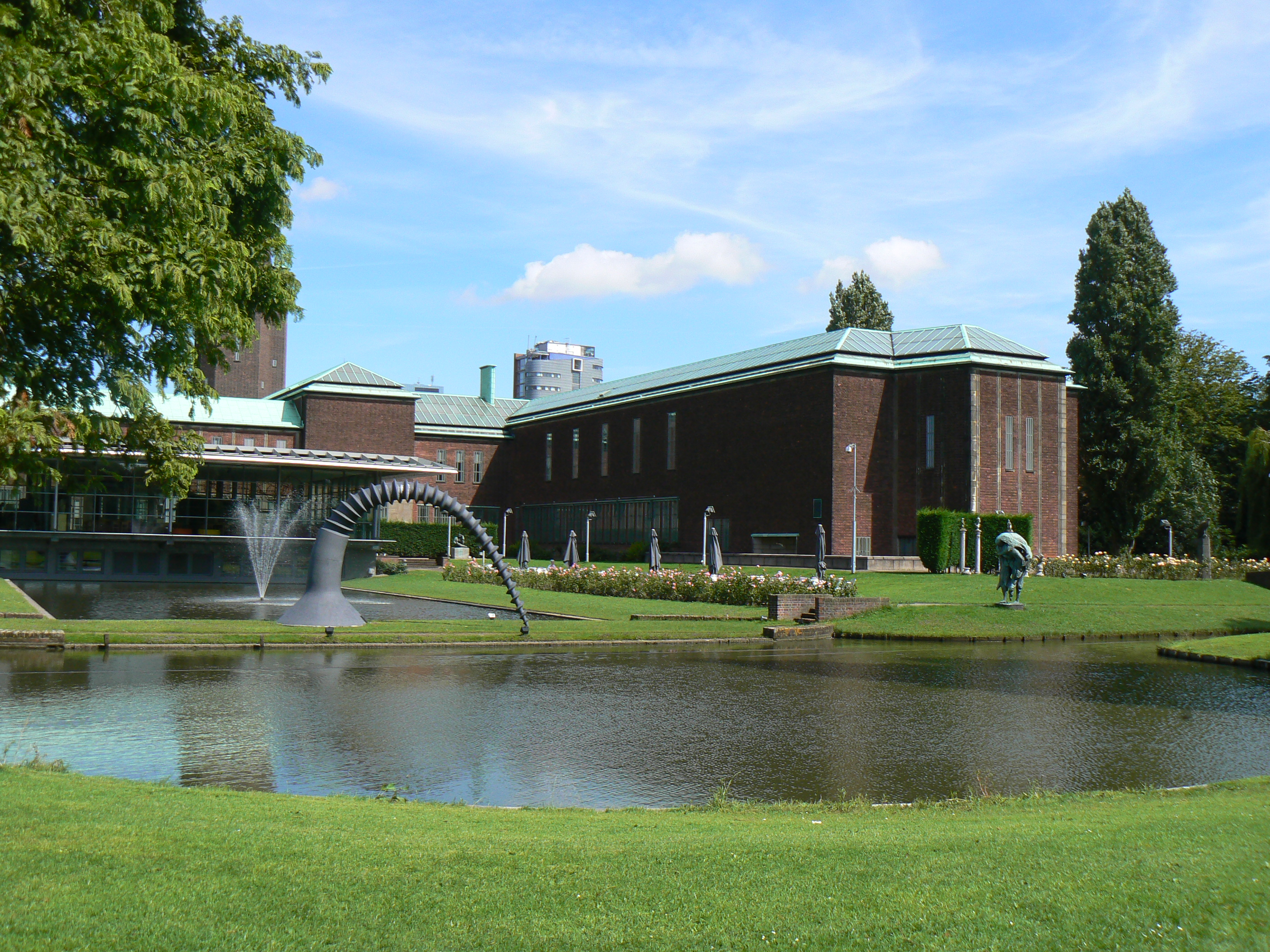 Museumpark Rotterdam/The Netherlands (FOP)